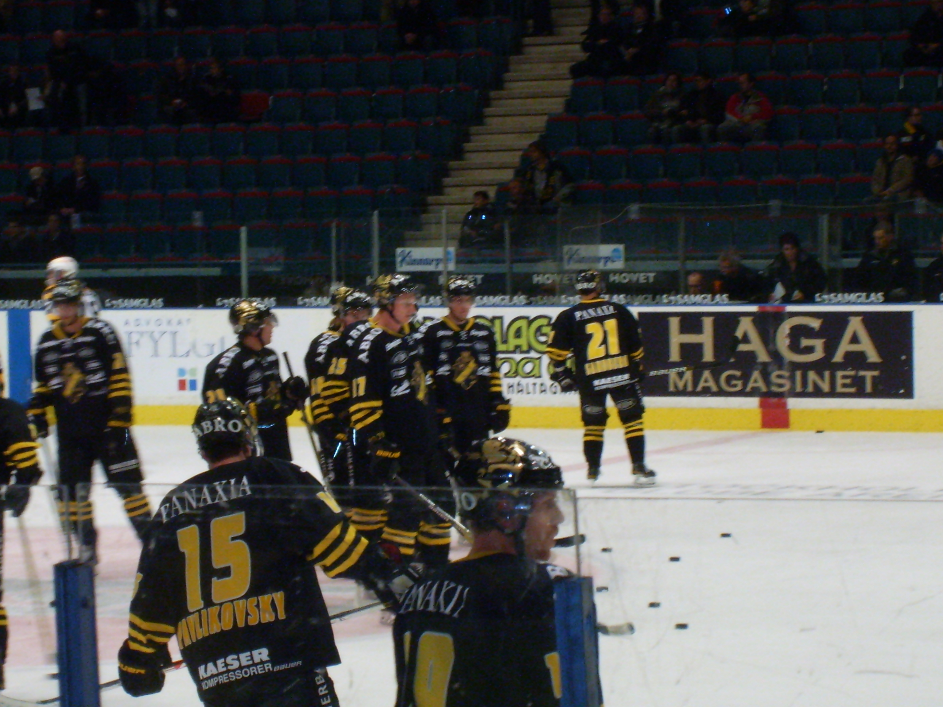 Ice hocke players from AIK, Sweden.